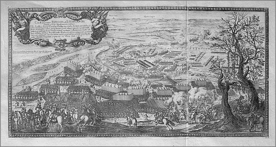 Battle in fortified camp near Sandomierz, 1656